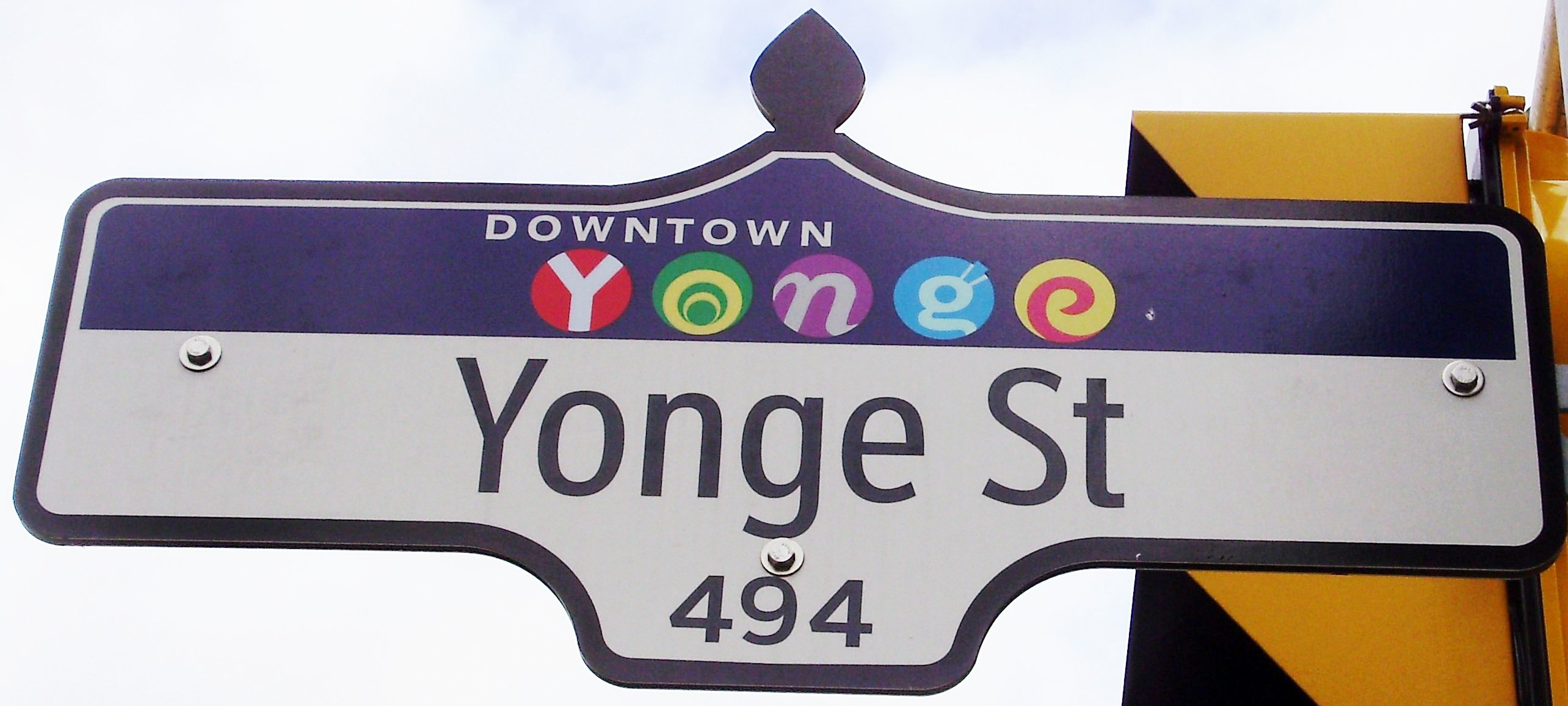 A street sign for Yonge Street, in the Downtown Yonge livery, at its intersection with Grosvenor Street in Toronto, Ontario, Canada.